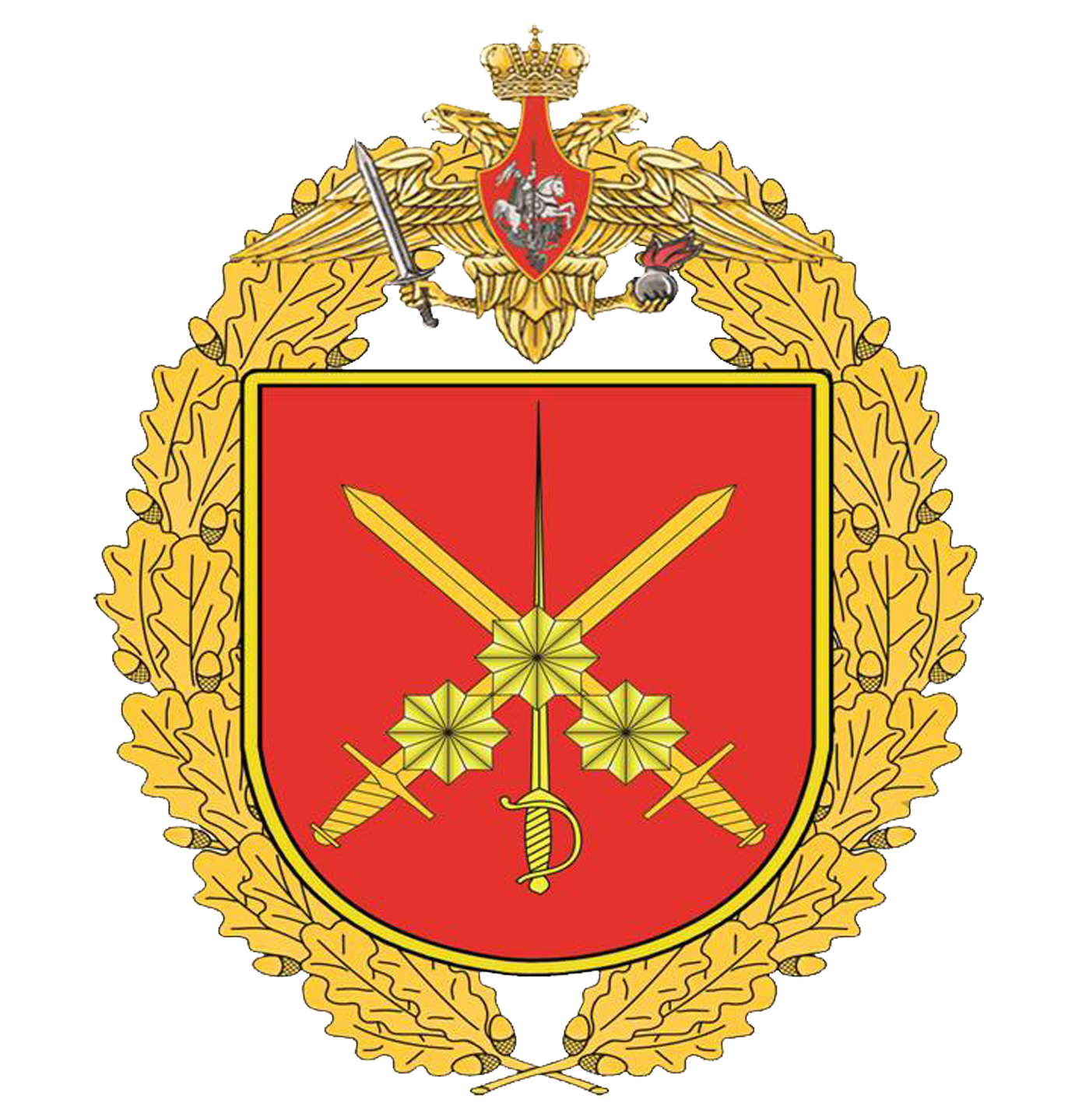 Coat of arms of the 64th Independent Motor Rifle Brigade